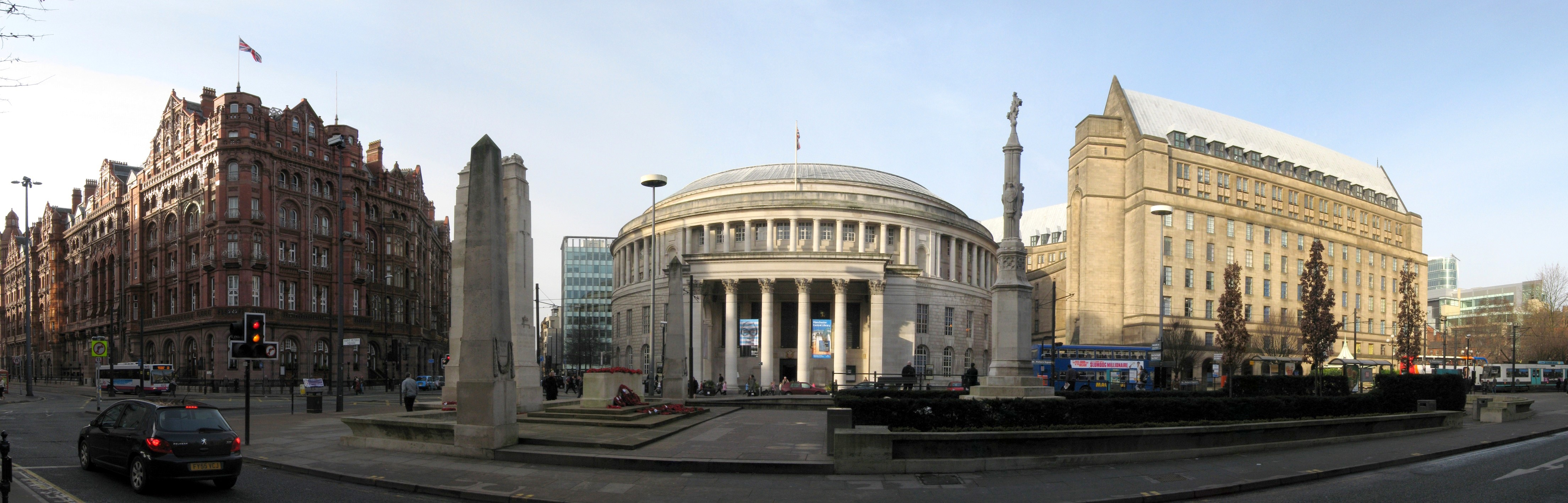 St Peter's Square, Midlands Hotel, Central Library and Town Hall